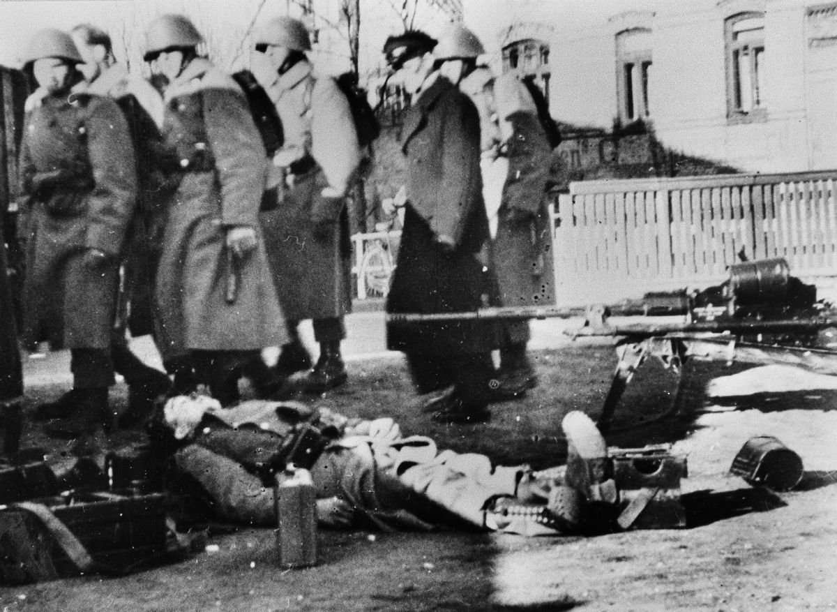 Danish soldiers stand next to the dead body of Private 108 Oluf Arthur Hansen, following the battle in Haderslev on April 9th, 1940.